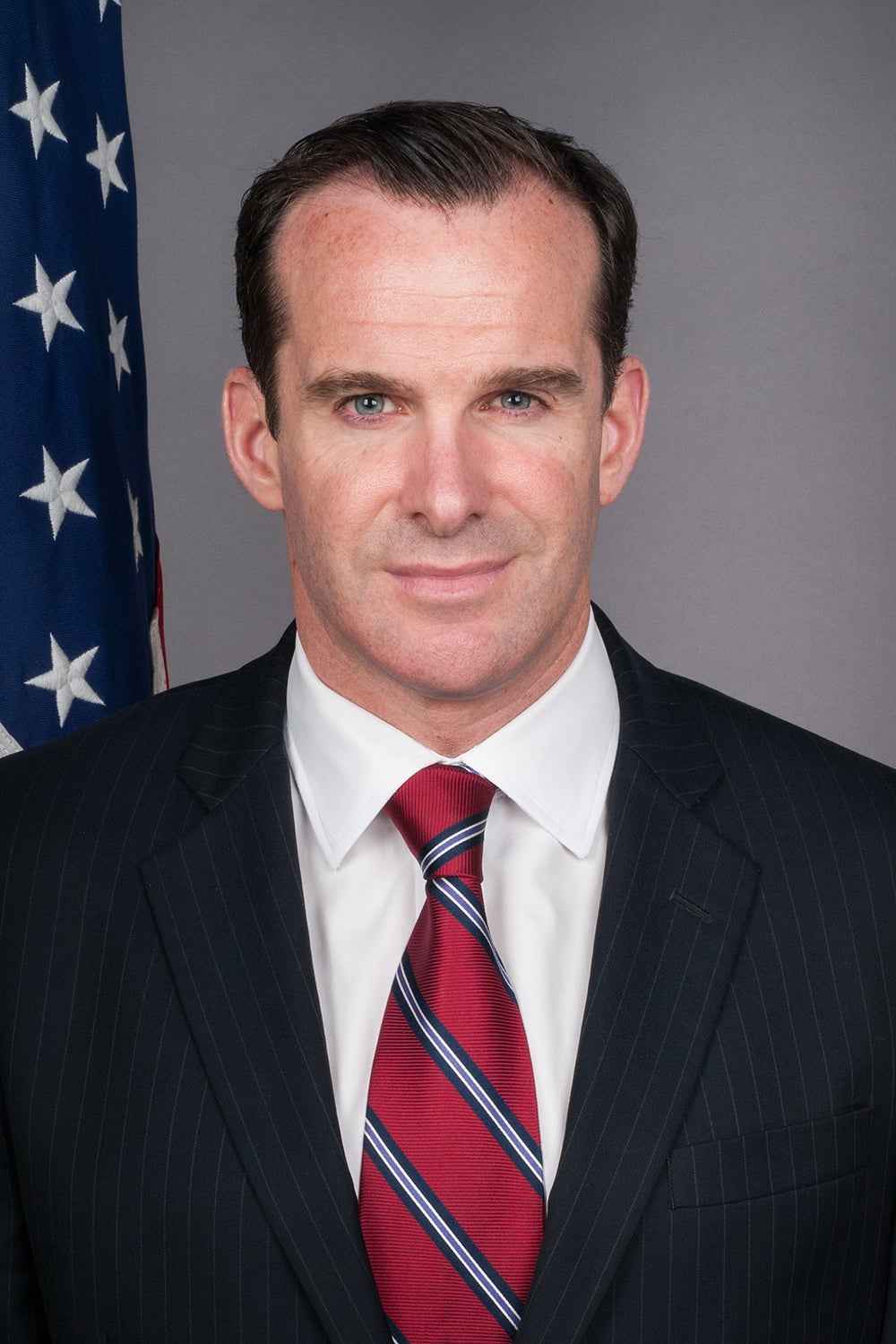 Brett H. McGurk, Special Presidential Envoy for the Global Coalition to Counter ISIL